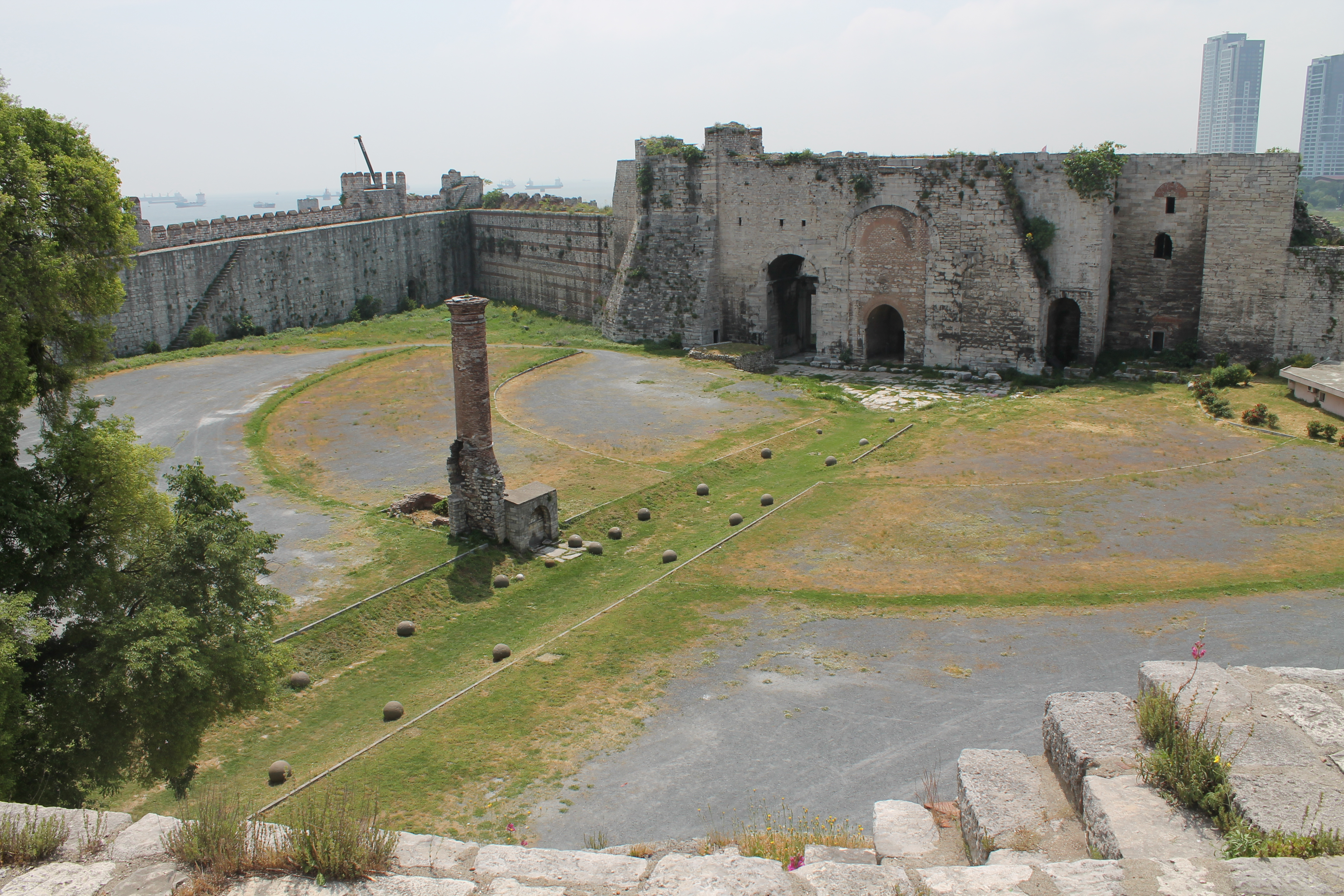 Yedikule Fortress